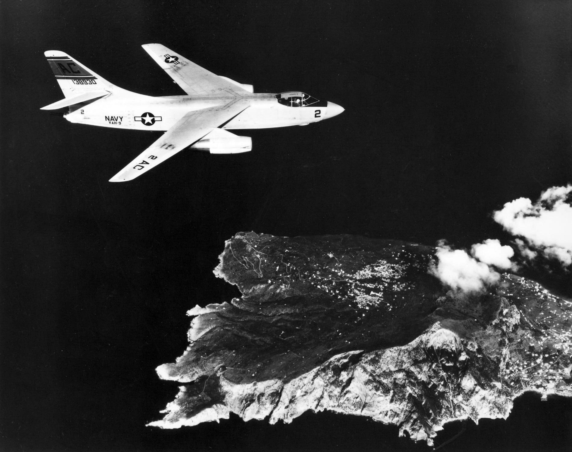 An U.S. Navy Douglas A3D-2 Skywarrior (BuNo 138930) of heavy attack squadron VAH-9 Hoot Owls from the aircraft carrier USS Saratoga (CVA-60) flies over the Isle of Capri, Italy, 1958. VAH-9 was assigned to Carrier Air Group Three (CVG-3) aboard the Saratoga for a deployment to the Mediterranean Sea from 1 February to 1 October 1958. The A3D-2 (A-3B) 138930 was lost on 12 February 1965 while assigned to VAH-4.